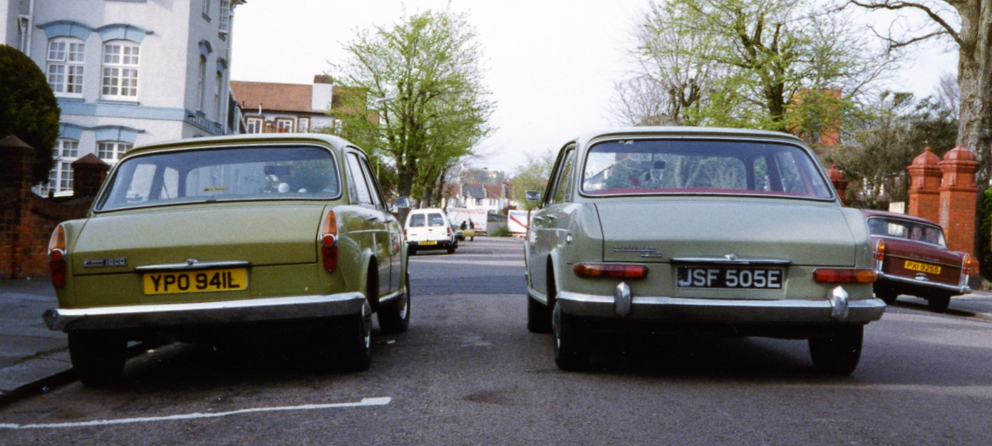 BMC ADO17 cars, in Morris 1800 guise; Mark I and a later Mark: rears.